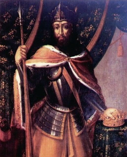 o rei